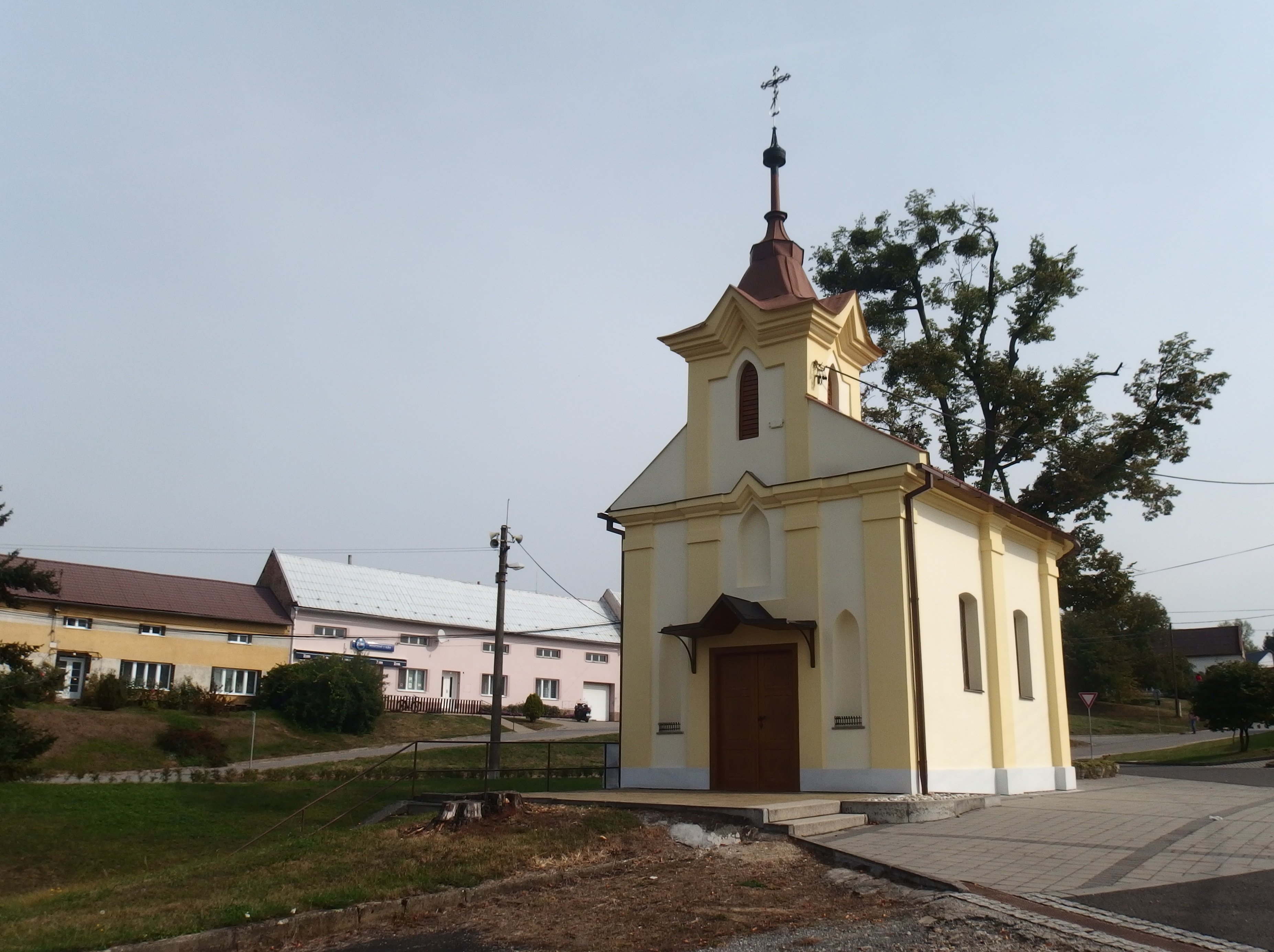 Hostišová, Zlín District, Czech Republic.